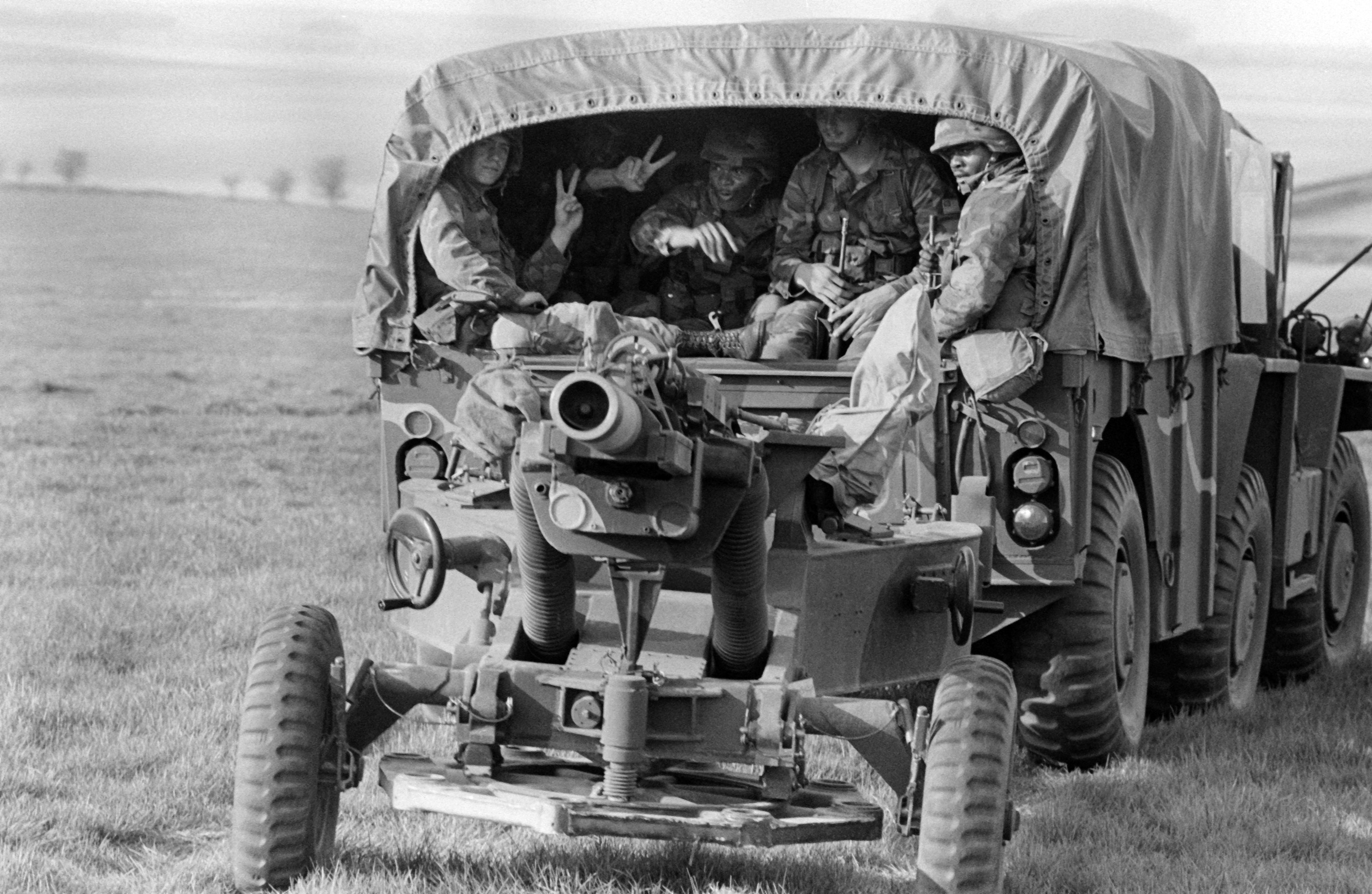 American Soldiers wave from the back of a truck towing a Howitzer from a drop zone during NATO Exercise ARDENT GROUND '87. Members of the Allied Command Europe Mobile Force from Belgium, the Netherlands, West Germany, Italy, Luxembourg, the United Kingdom and the United States are participating in the live artillery/air exercise being staged on Salisbury Plain Training Area in Wiltshire.